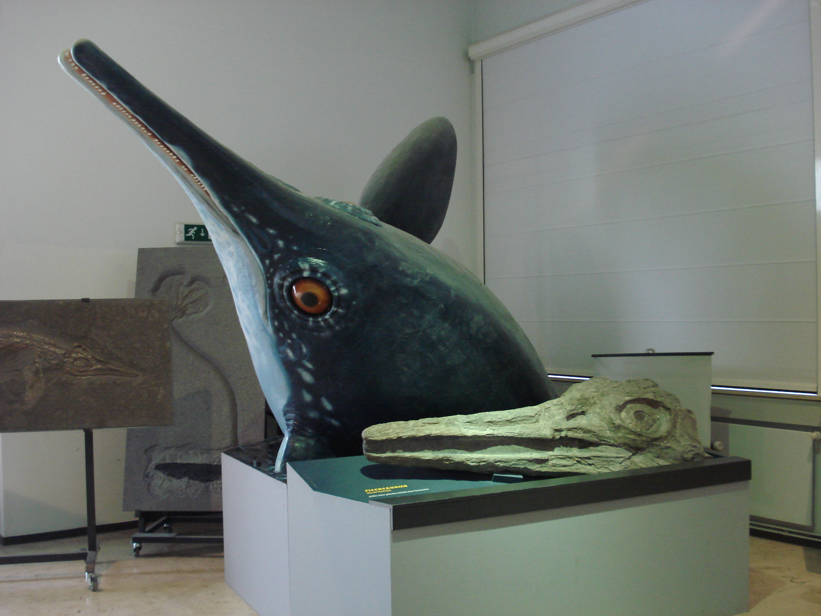 fossil of Leptonectes (formerly Leptopterygius)